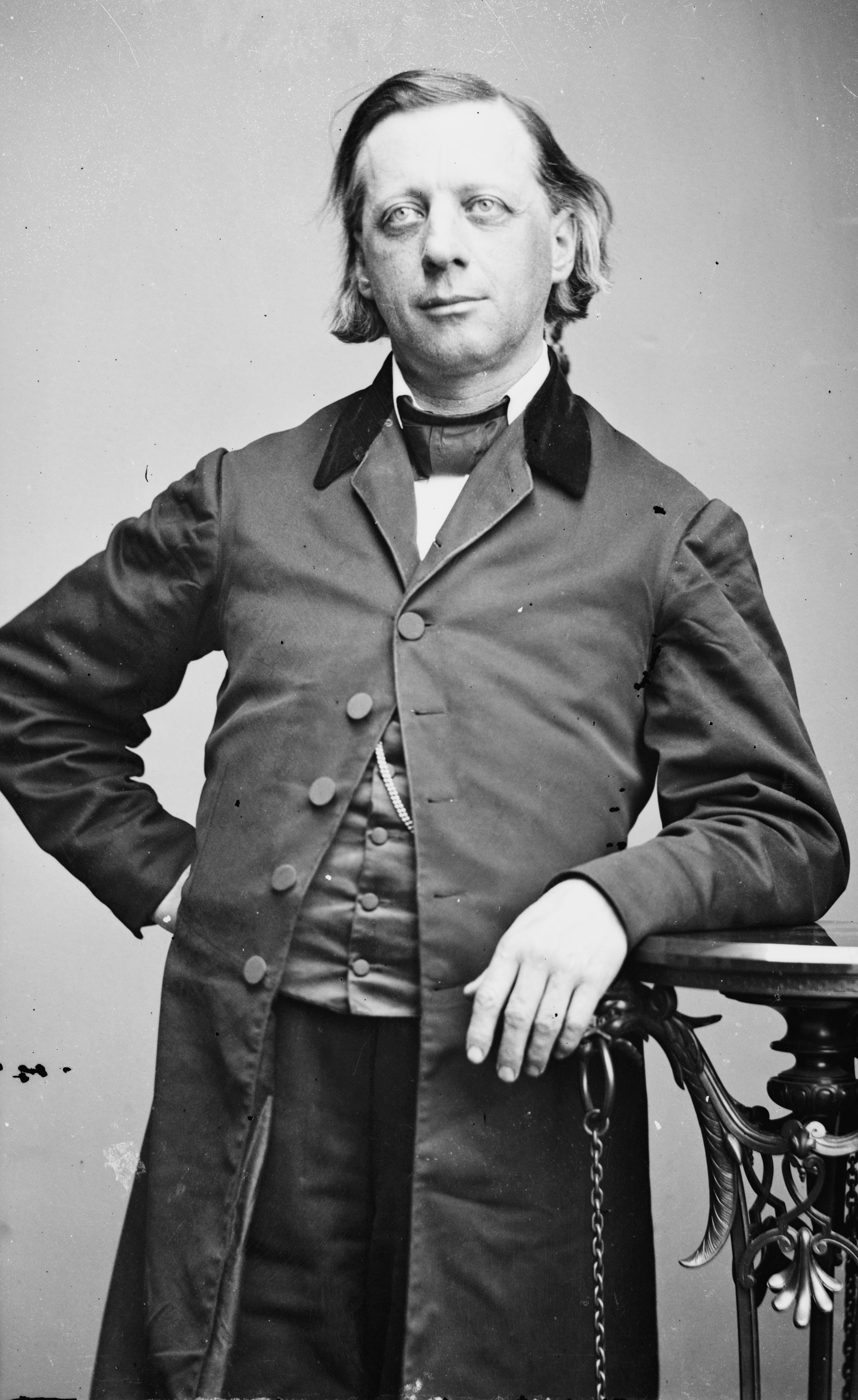 Henry Ward Beecher. Library of Congress description: "Henry Ward Beecher"